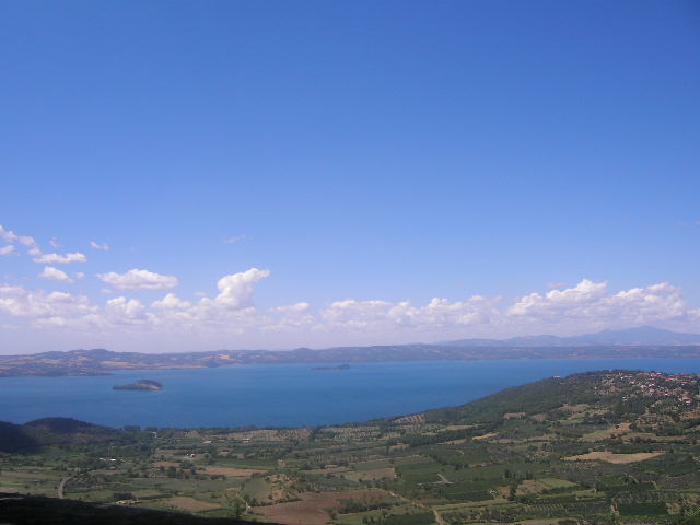 Lake Bolsena from the top of the Montefiascone hill, August 2006